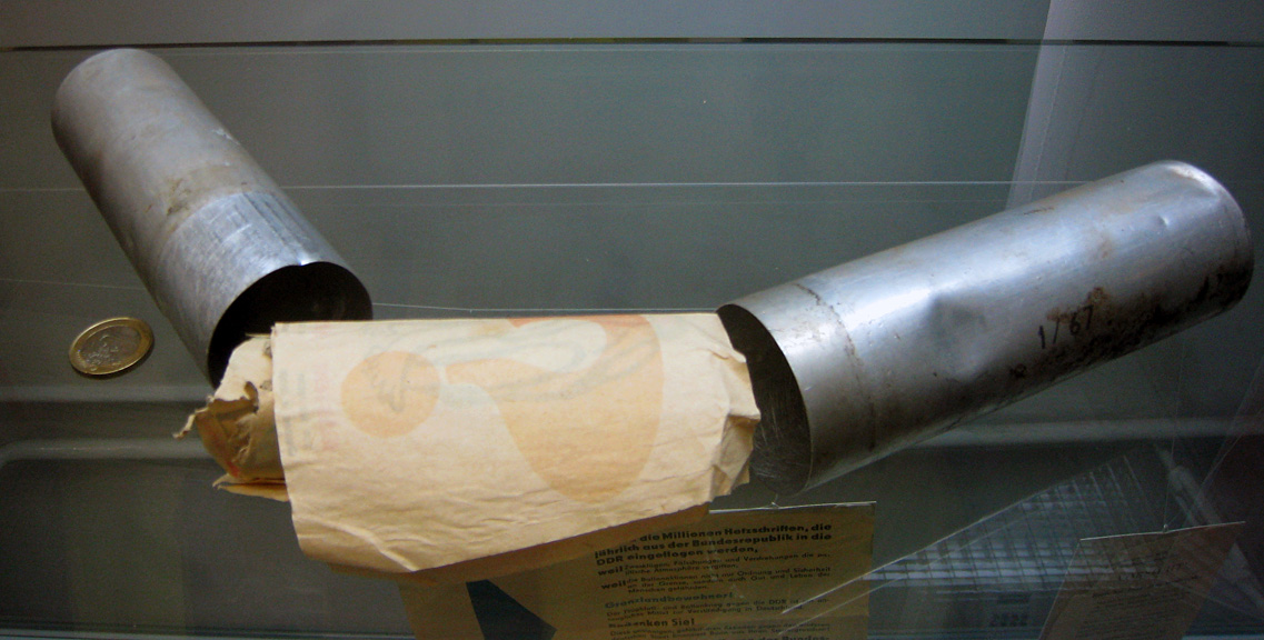 East German propaganda leaflets in a canister, fired across the inner German border by mortar. Display exhibit at the Gedenkstätte Marienborn.